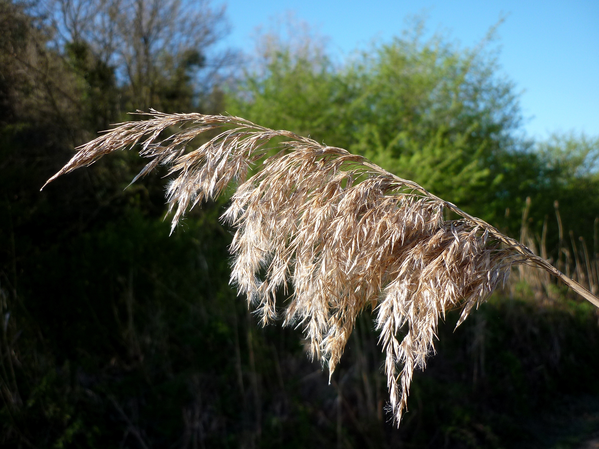 Phragmites australis . In Pinós (Solsonès - Catalunya). To 580 m. altitude